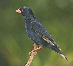 ethiopian bird